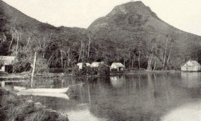 View of Raiatea Sacred Mountain, Tahiti, from October 1920 National Geographic Magazine; photo by L. Gauthier. Category:Society Islands